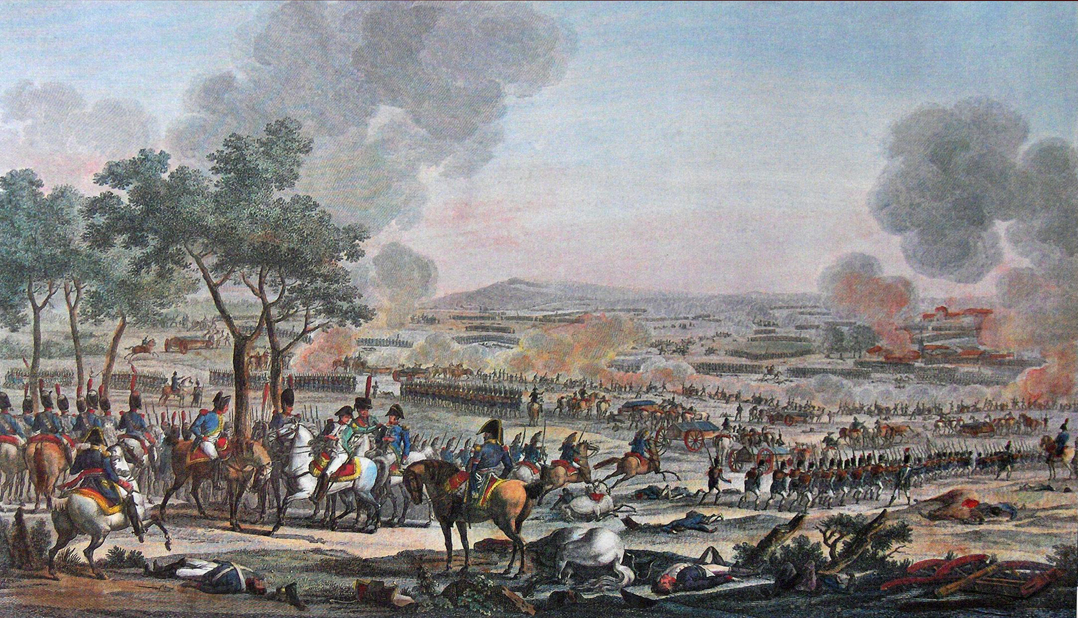 "Battle of Wagram" colored litho. Caption originally read, Bataille de Wagram, Livrée de 7 Juillet 1809.